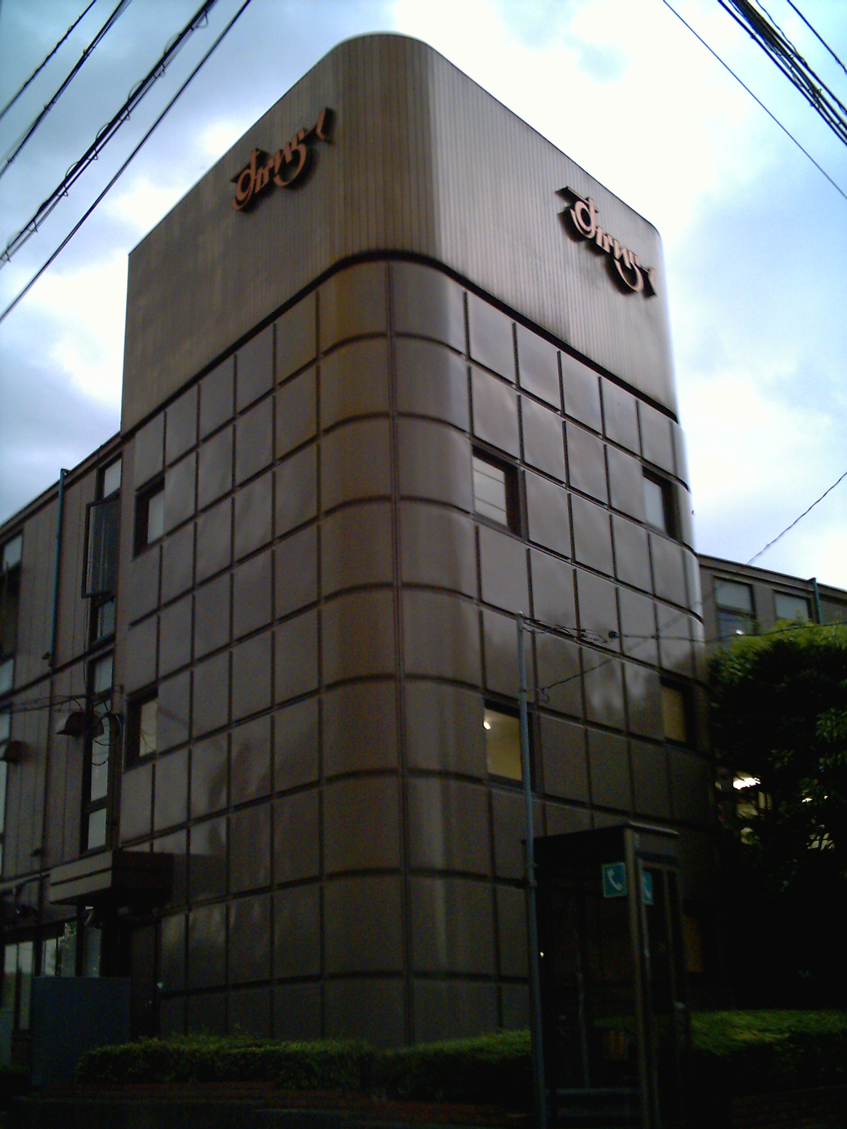 Skylark_Restaurant_office_musashino City japan photography day, 2006.9.29. photography person kici